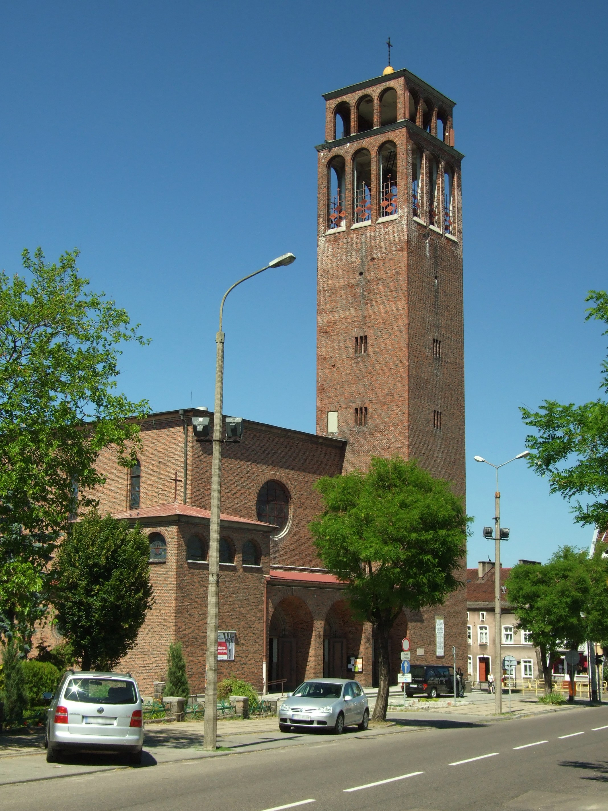 St Joseph church in one of the Tczew's neighbourhoods, Pomorskie voivodship, Poland